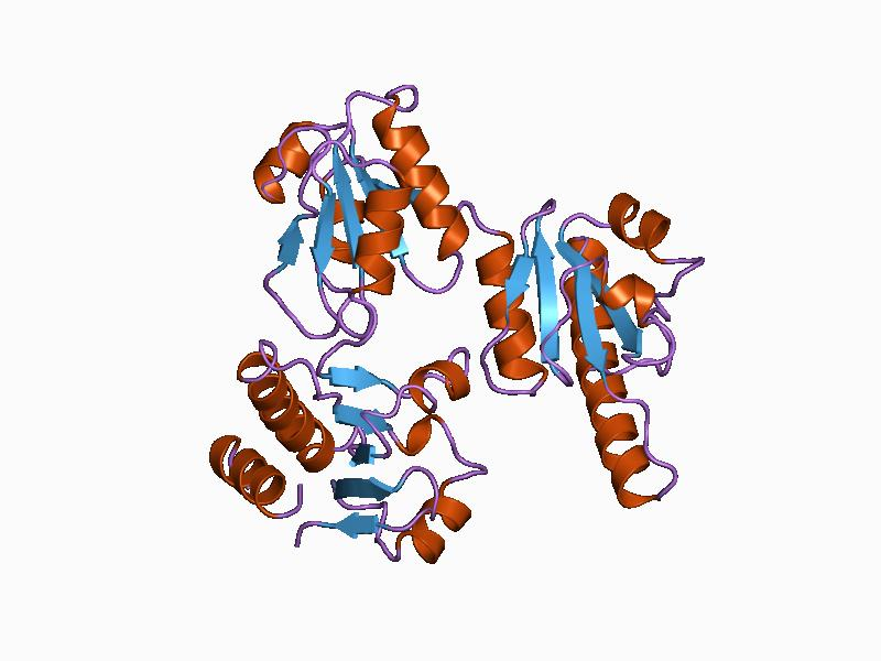 Cartoon representation of the molecular structure of protein registered with 1a8y code.